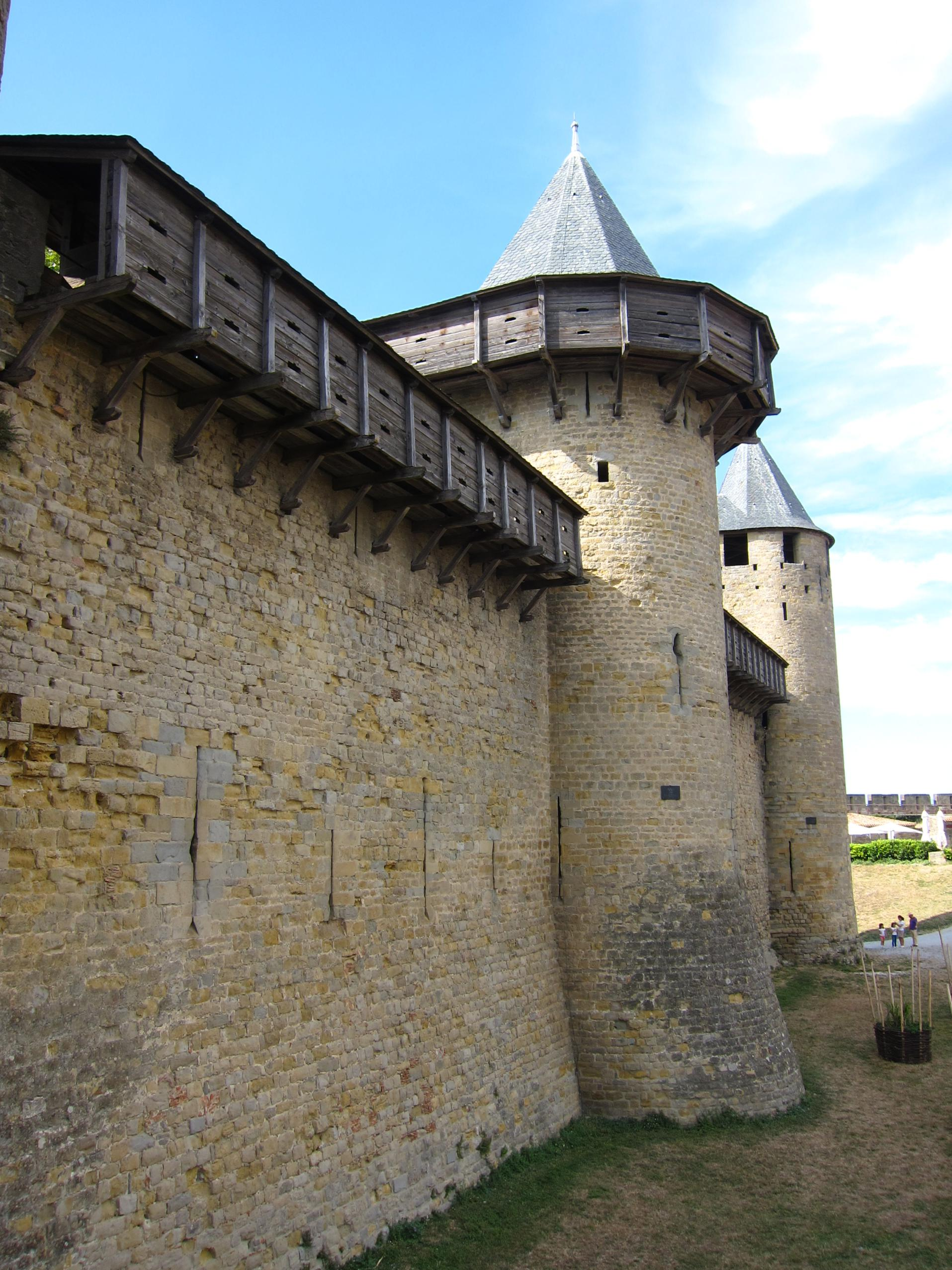 View of a wall in Carcassonne